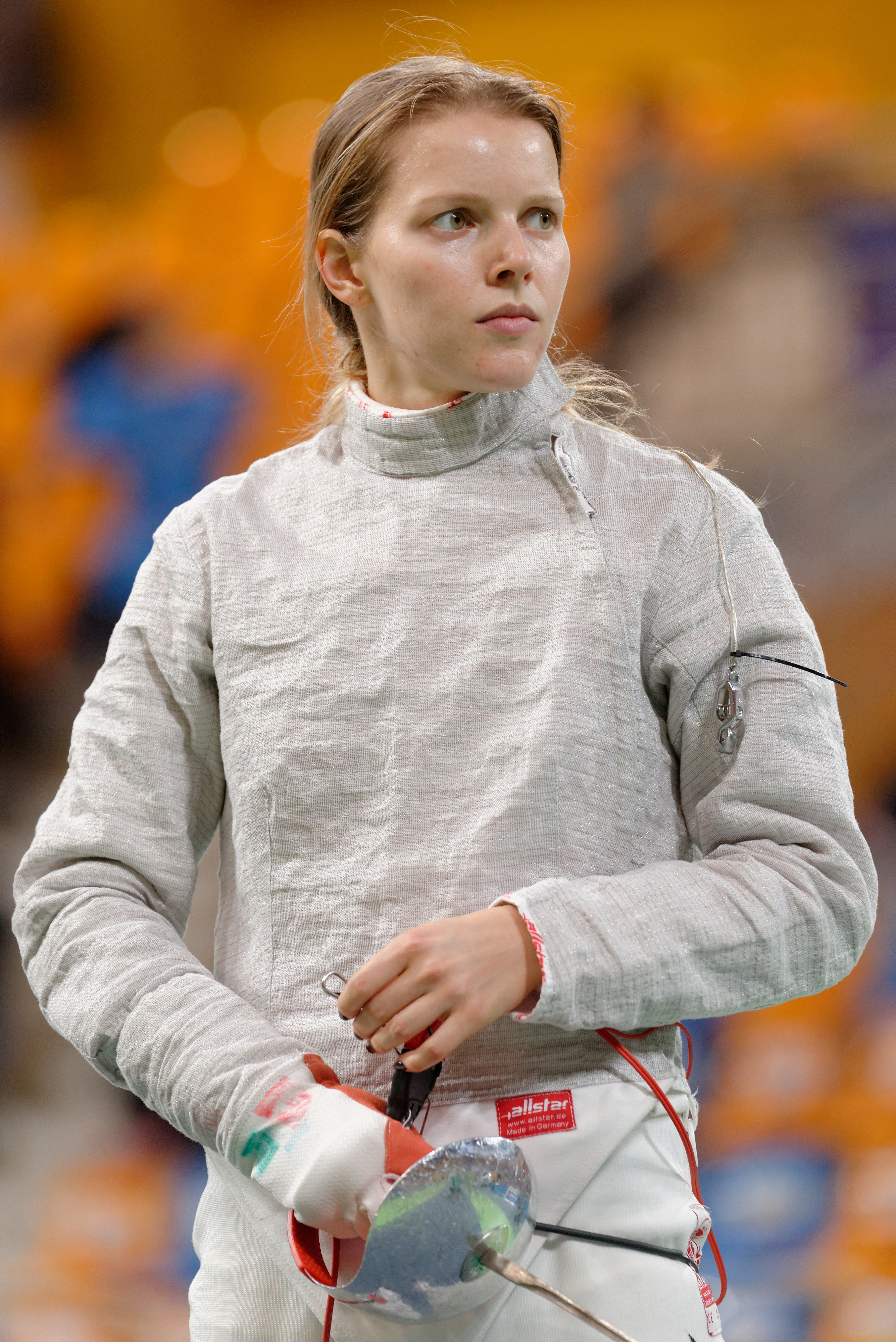 Russia's Ekaterina Dyachenko at the 2014–15 Orléans World Cup in women's sabre.